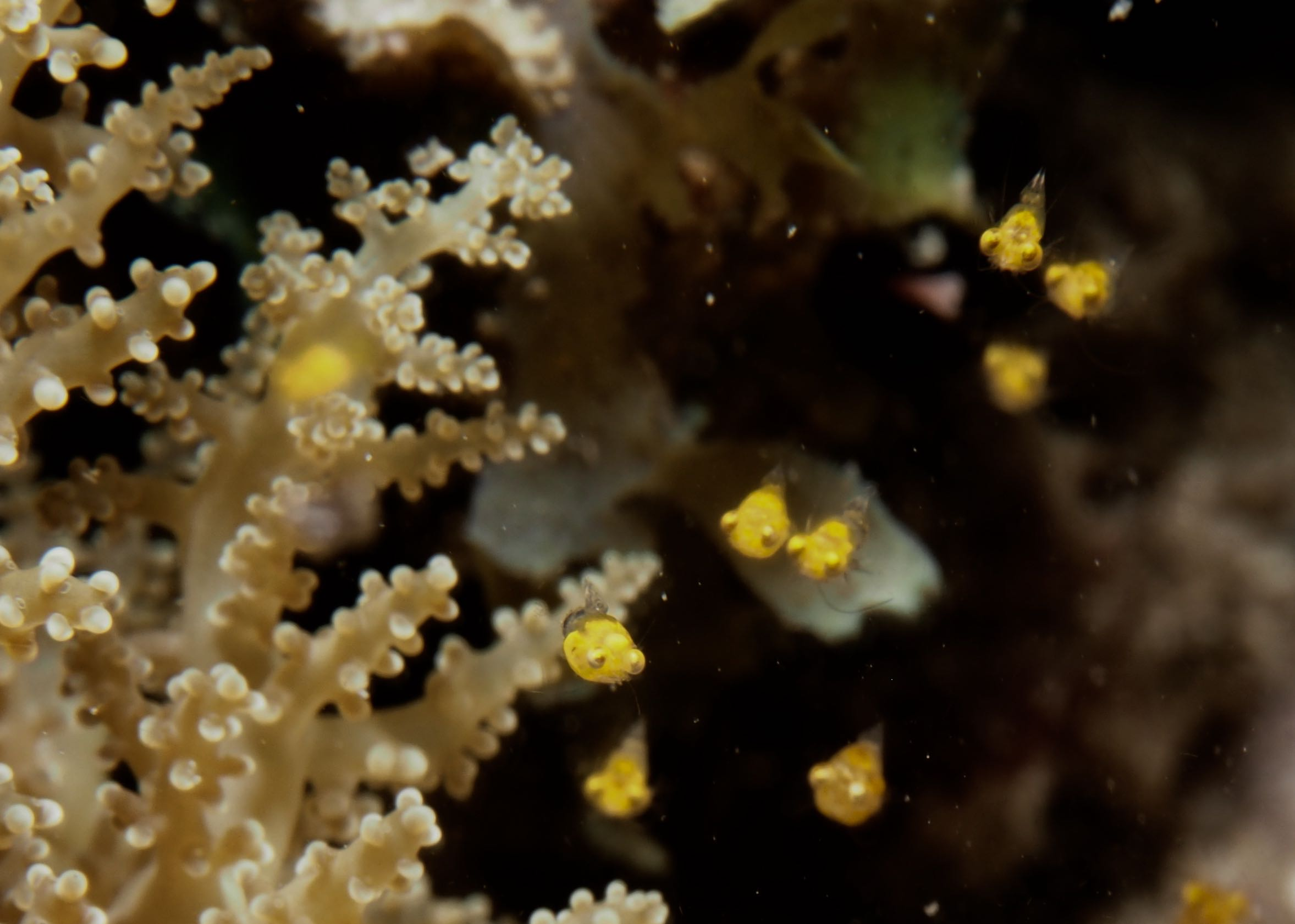 Idiomysis at Nuarro